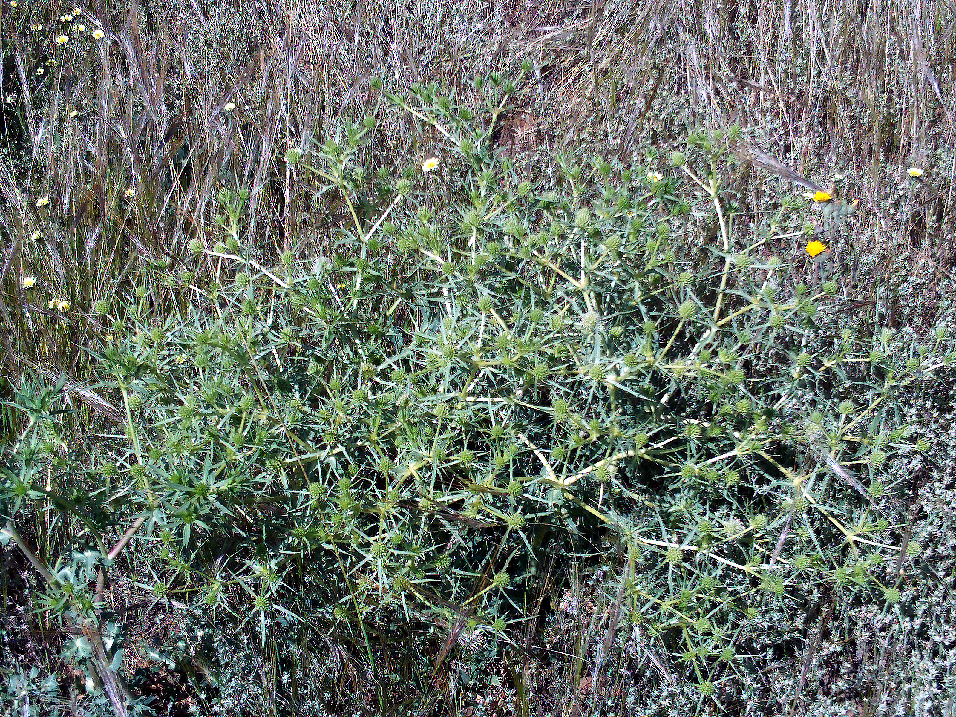 Eryngium ilicifolium habit, Dehesa Boyal de Puertollano, Spain